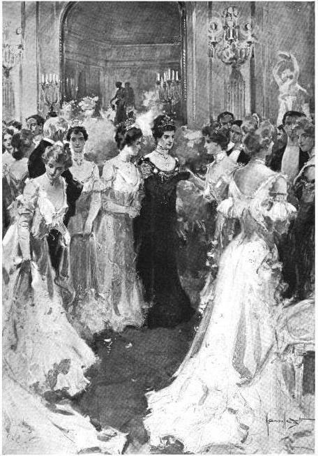 Caroline Schermerhorn Astor and her guest at one of her lavish balls, New York 1902